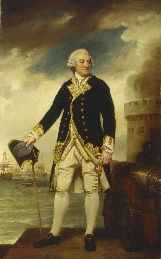 Description A full-length portrait to right wearing flag officer's full-dress uniform, 1767-83, a tie wig and holding his hat and cane in his right hand. There is a pentimento which indicates the hat was originally on his head and the picture was exhibited at the Royal Academy in 1782. A rear-admiral under Hawke in 1759, Geary had the misfortune to miss the Quiberon Bay action that November. In May 1780 he succeeded to the command of the Channel fleet on the death of Sir Charles Hardy, during a critical period of threatened French invasion, but was forced to give up the command for health reasons the following August. In this painting he stands on the battery at Portsmouth, with the fleet anchored in the left background including the Victory, 100 guns, as his flagship. Both the background and the ships are believed to be by Dominic Serres. There is a modern inscription in the left foreground. The artist was an important portrait painter of the late 18th century, generally ranked third after Joshua Reynolds and Thomas Gainsborough. He was in Paris in 1764 and in 1773 moved to Italy for two years, where he became interested in history paintings in the elevated and élitist 'Grand Manner'. This developed into improving upon nature and the pursuit of perfect form. At its best his work demonstrated refinement, sensitivity and elegance, although it could also be repetitive and monotonous. As a society painter he typified late-18th-century English artists who, compelled by the conditions of patronage to spend their time in producing portraits, could only aspire to imaginative and ideal painting. By 1780 Romney's portraits, according to Horace Walpole, were 'in great vogue' and he worked in an increasingly neo-classical style.